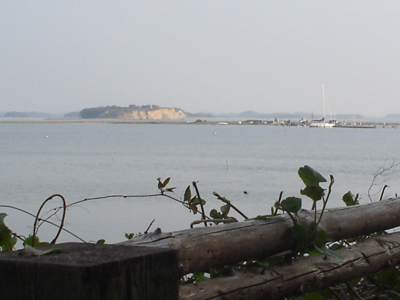 Korshavn is a small natural harbour at the Northern tip of Fyn, a Danish island.